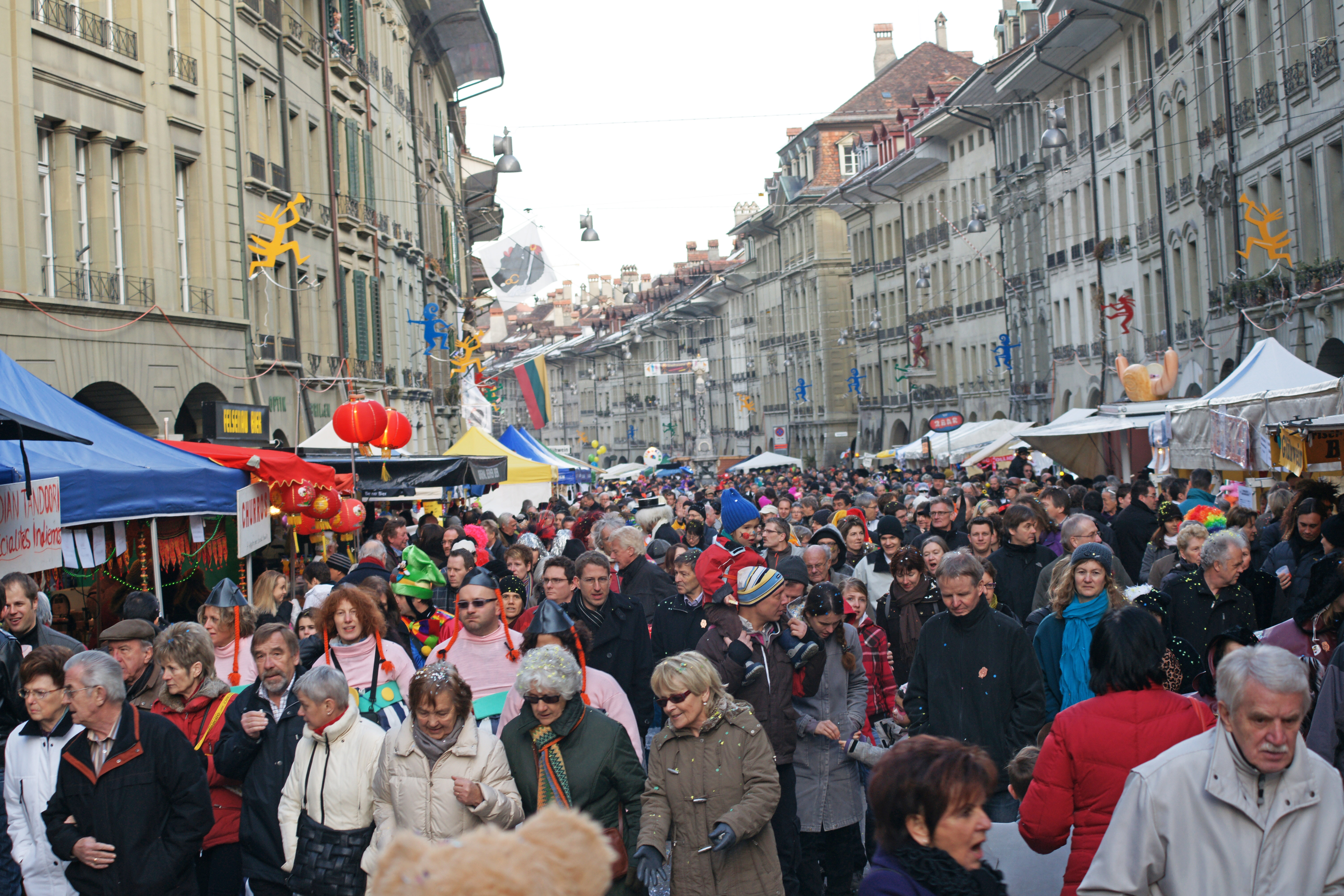 Crowds in Kramgasse, Bernese Carnival 2010.